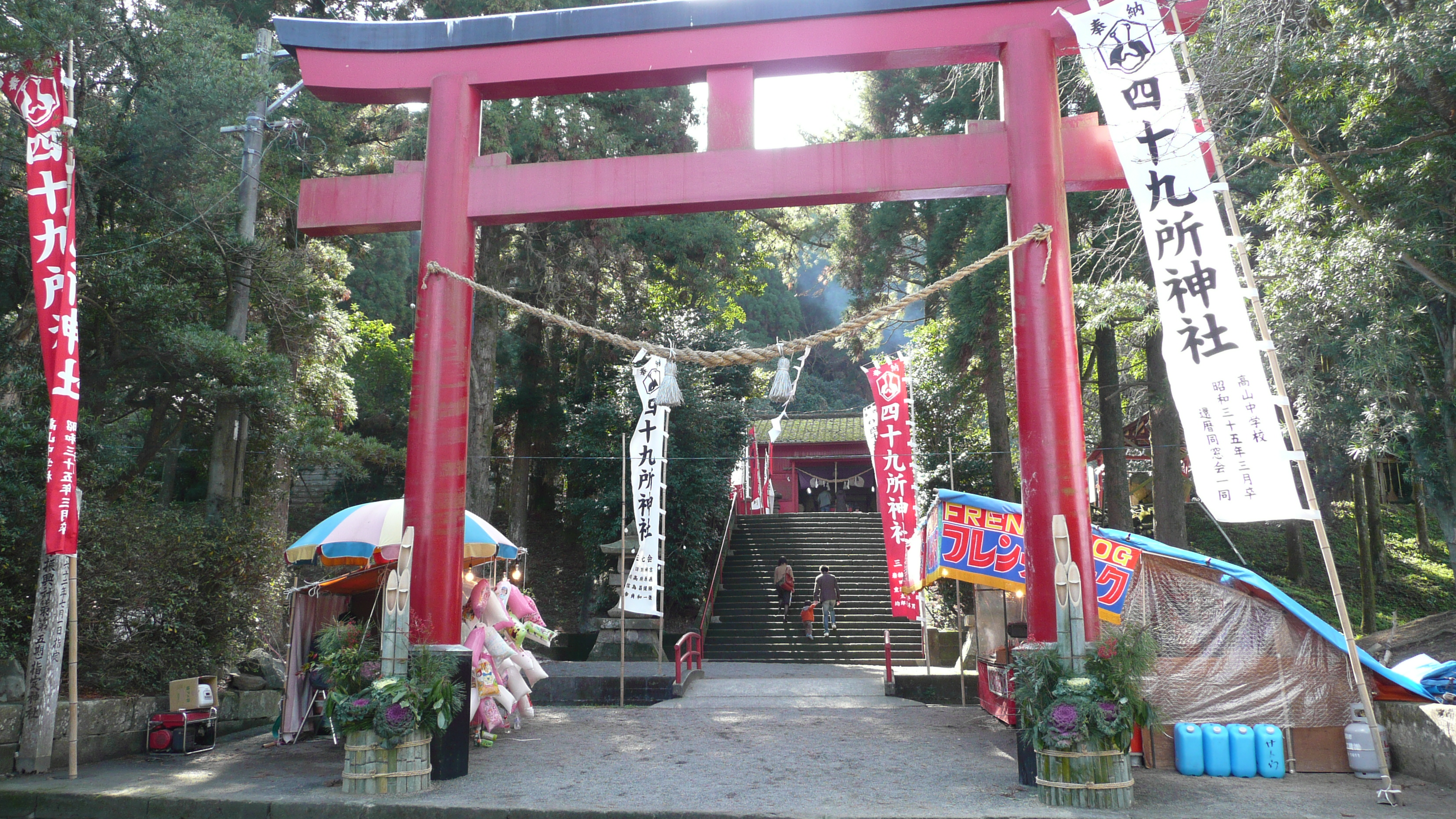 Shijukusho Shrine (Kimotsuki Town, Kagoshima Prefecture, Japan)